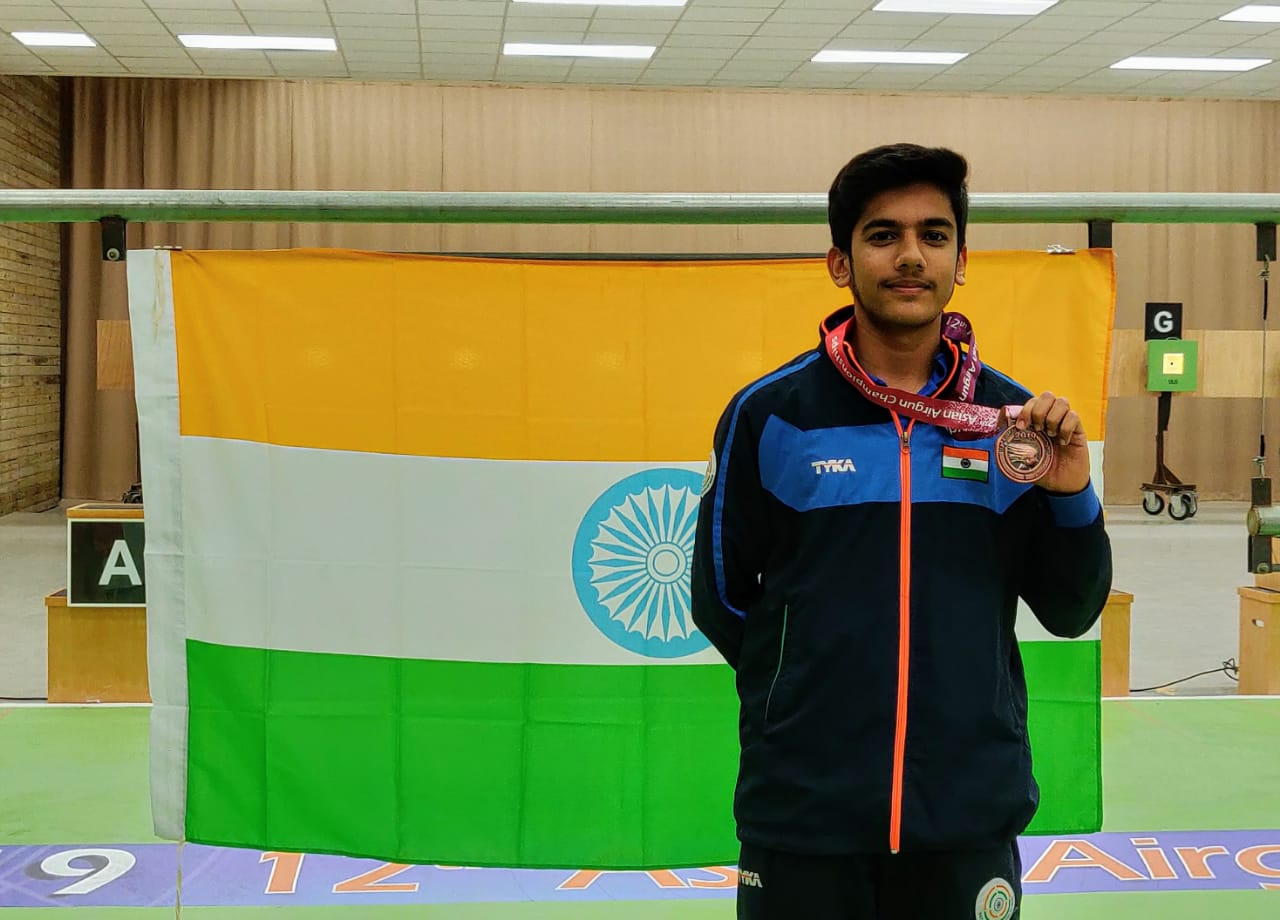 Aishwary Pratap is an Indian sport rifle shooter. Pratap was the National record holder in the men's 50-meter rifle three positions event.